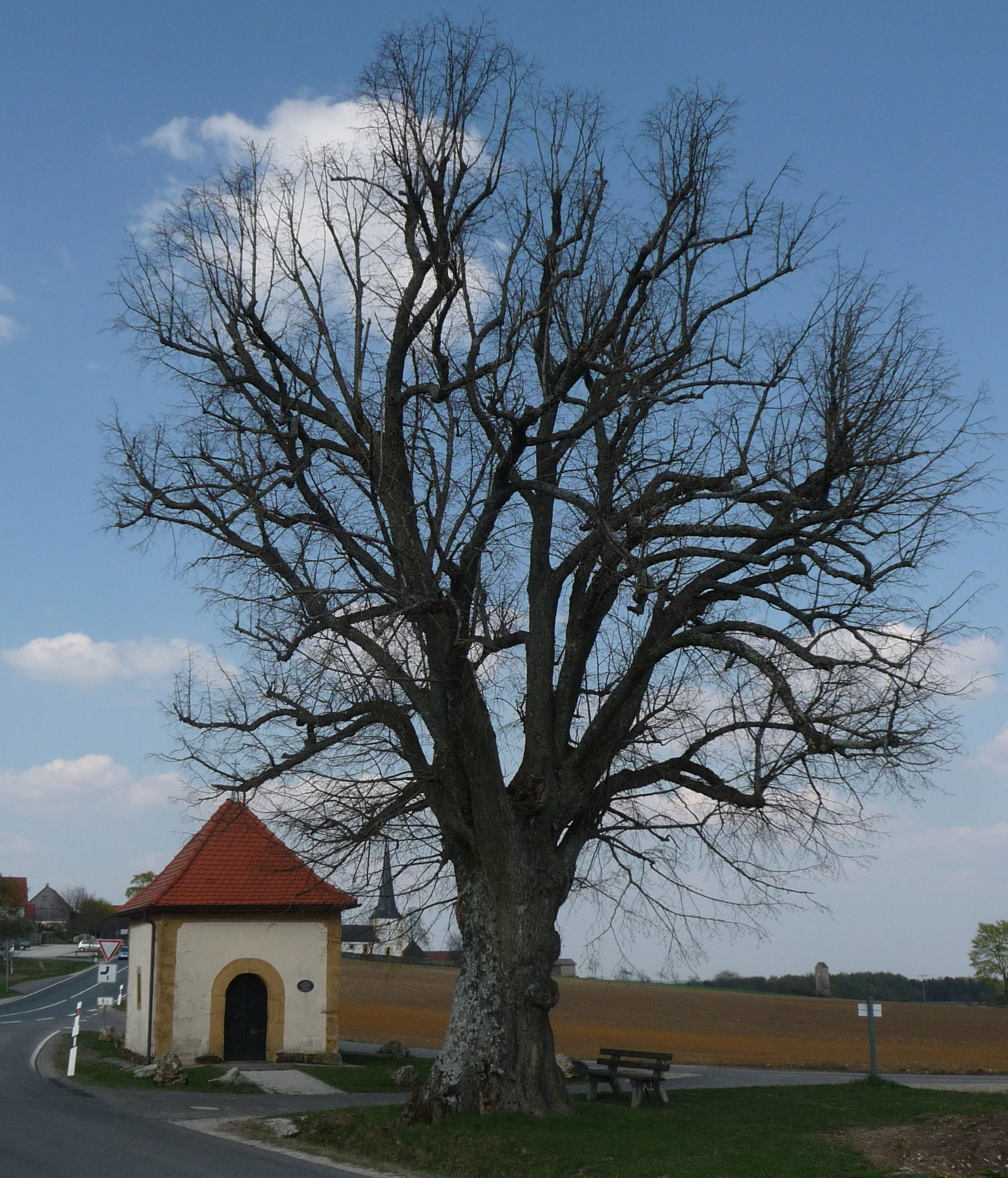 Teuchatz in Landkreis Bamberg, Germany